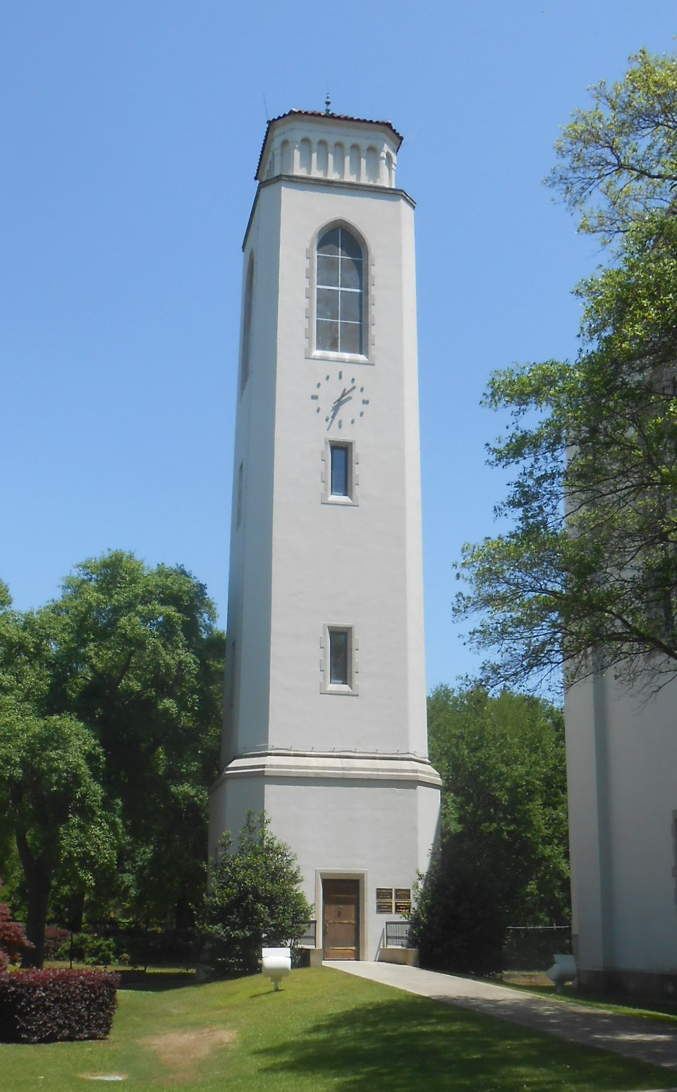 Howie Carrillon at the Citadel, Charleston, SC